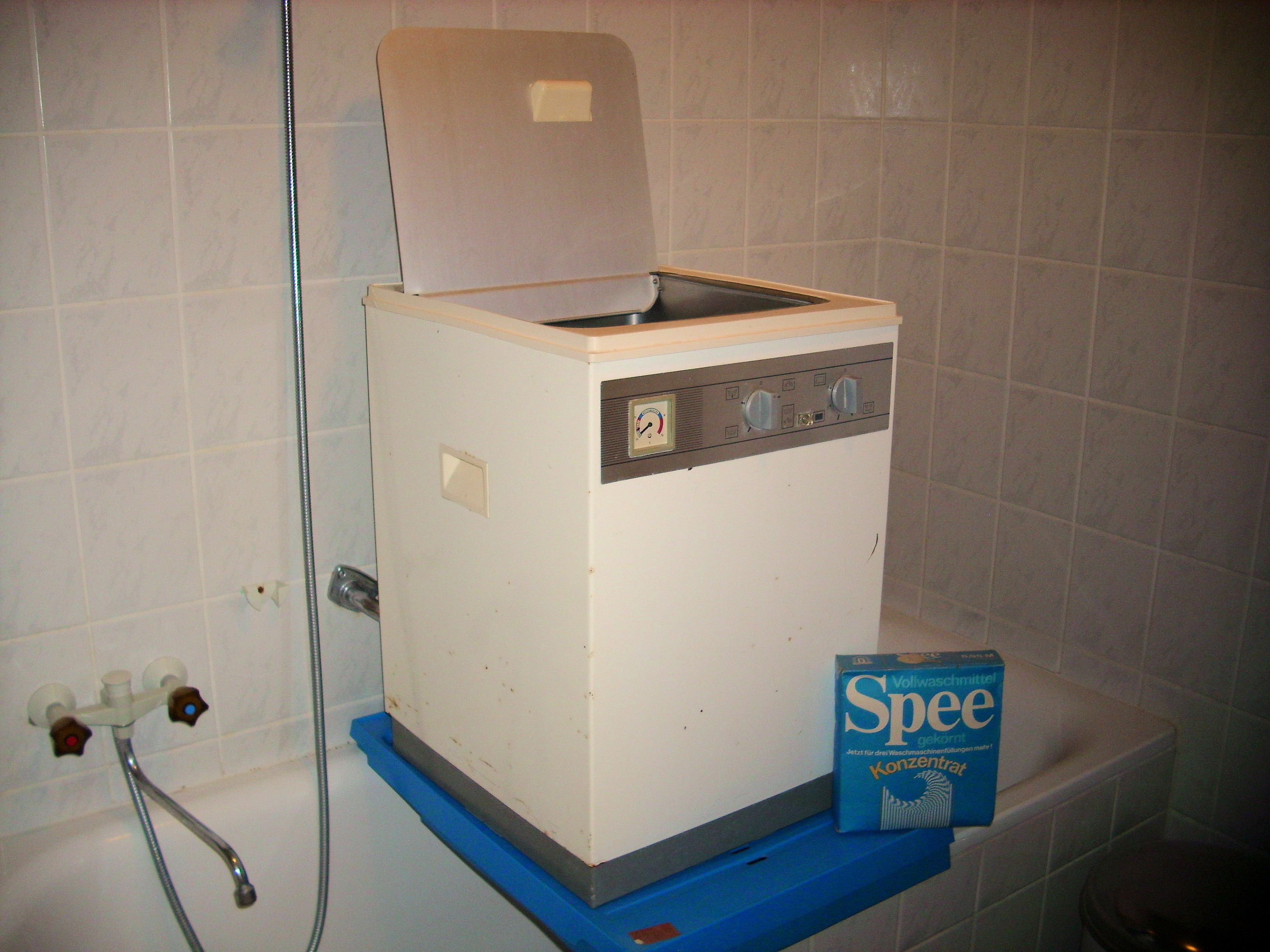 A washing machine WM 66, a simple, affordable and robust model of which millions were produced and sold in the German Democratic Republic (GDR) since 1966; production ceased in the mid-1990s